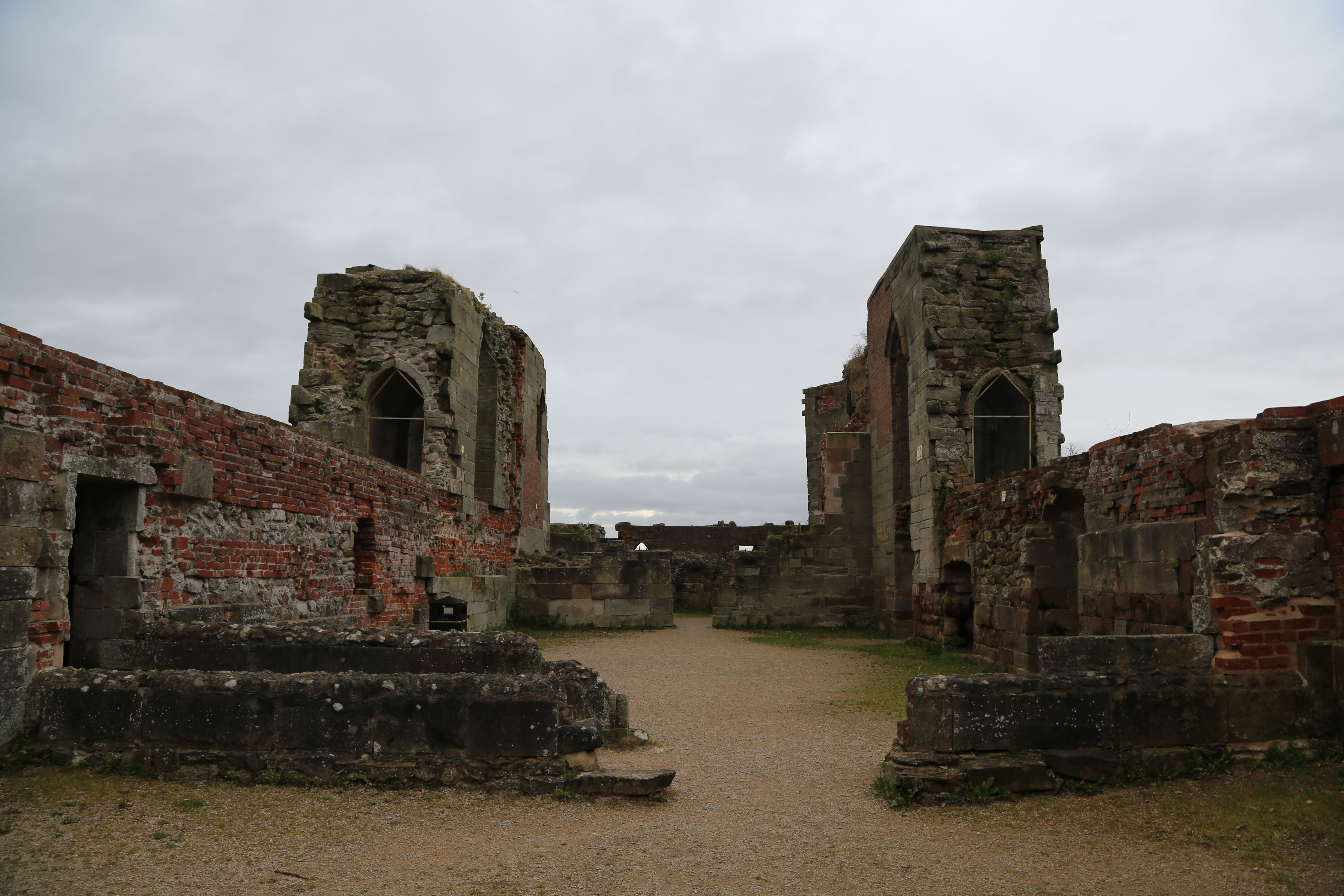 Photo of the inside of the the 19th century rebuild of Stafford castle keep